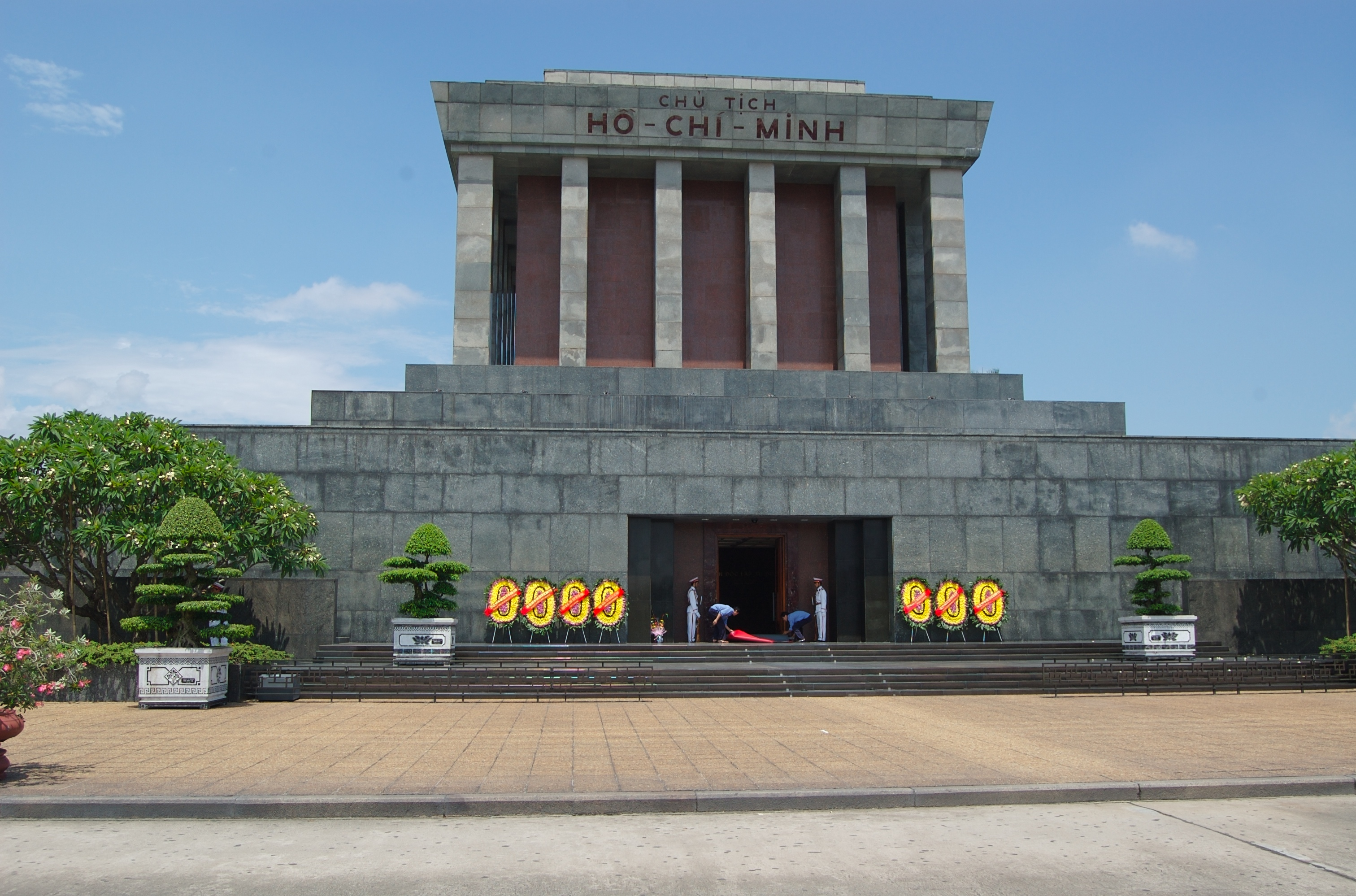 Ho Chi Minh Mausoleum